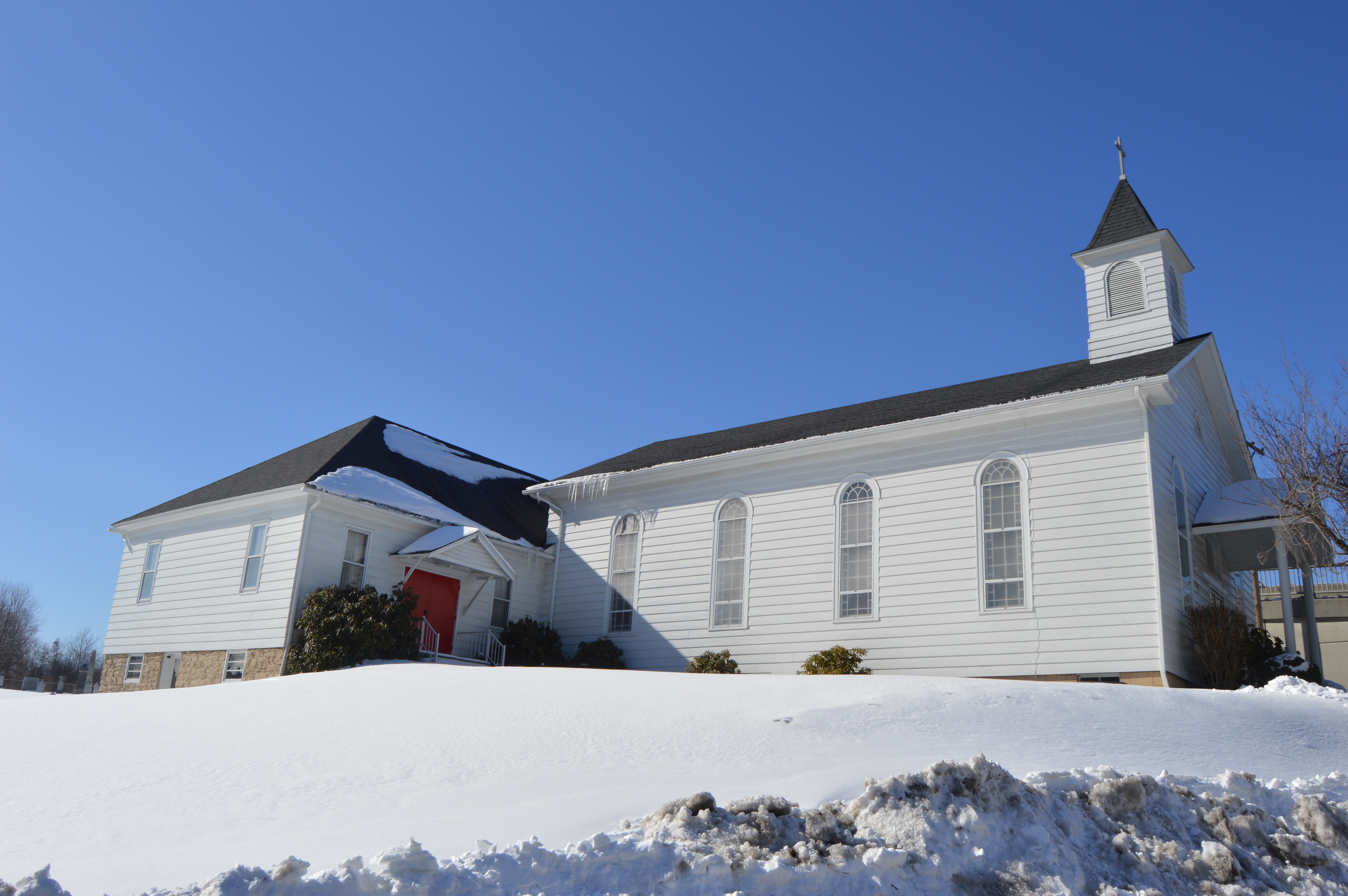 Southern side and front of St. John's Lutheran Church, located at the junction of Main and Croyle Streets in Summerhill, Pennsylvania, United States.